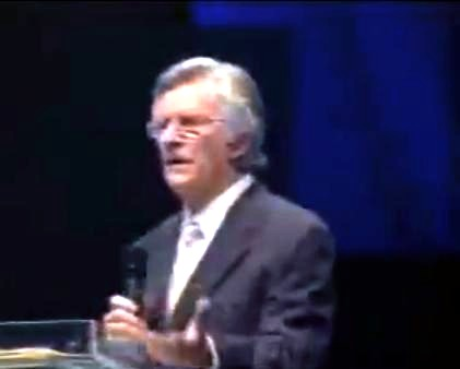 David Wilkerson during a Conference in Chile, 2008